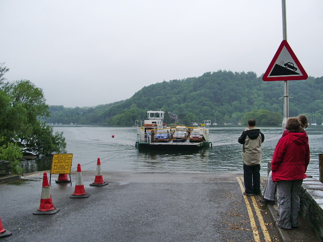 The Windermere Ferry, a cable ferry that crosses Lake Windermere in Cumbria, England. The ferry from Hawkshead about to land. For more information see the Wikipedia article Windermere Ferry.